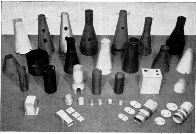 An assortment of mu-metal shapes from a 1951 advertisement in an electronics magazine. Mu-metal is a nickel iron alloy which has an extremely high magnetic permeability. It is used for shielding a variety of electronic equipment from magnetic fields. The conical shapes in background are cathode ray tube shields. The boxes at right are transformer shields.